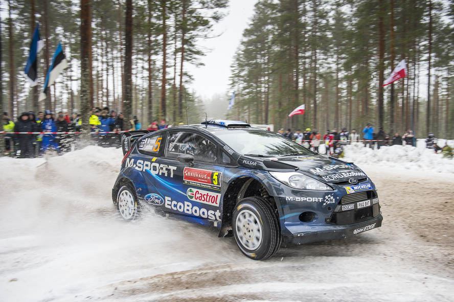 Rally Sweden 2014 Ford Fiesta RS WRC,Fredriksberg 1,Jarmo Lehtinen,M-Sport WRT,M-Sport World Rally Team,Mikko Hirvonen,Motorsport,Rally,Rally Sweden,Rallye,Rallye Schweden,SS9,WP9